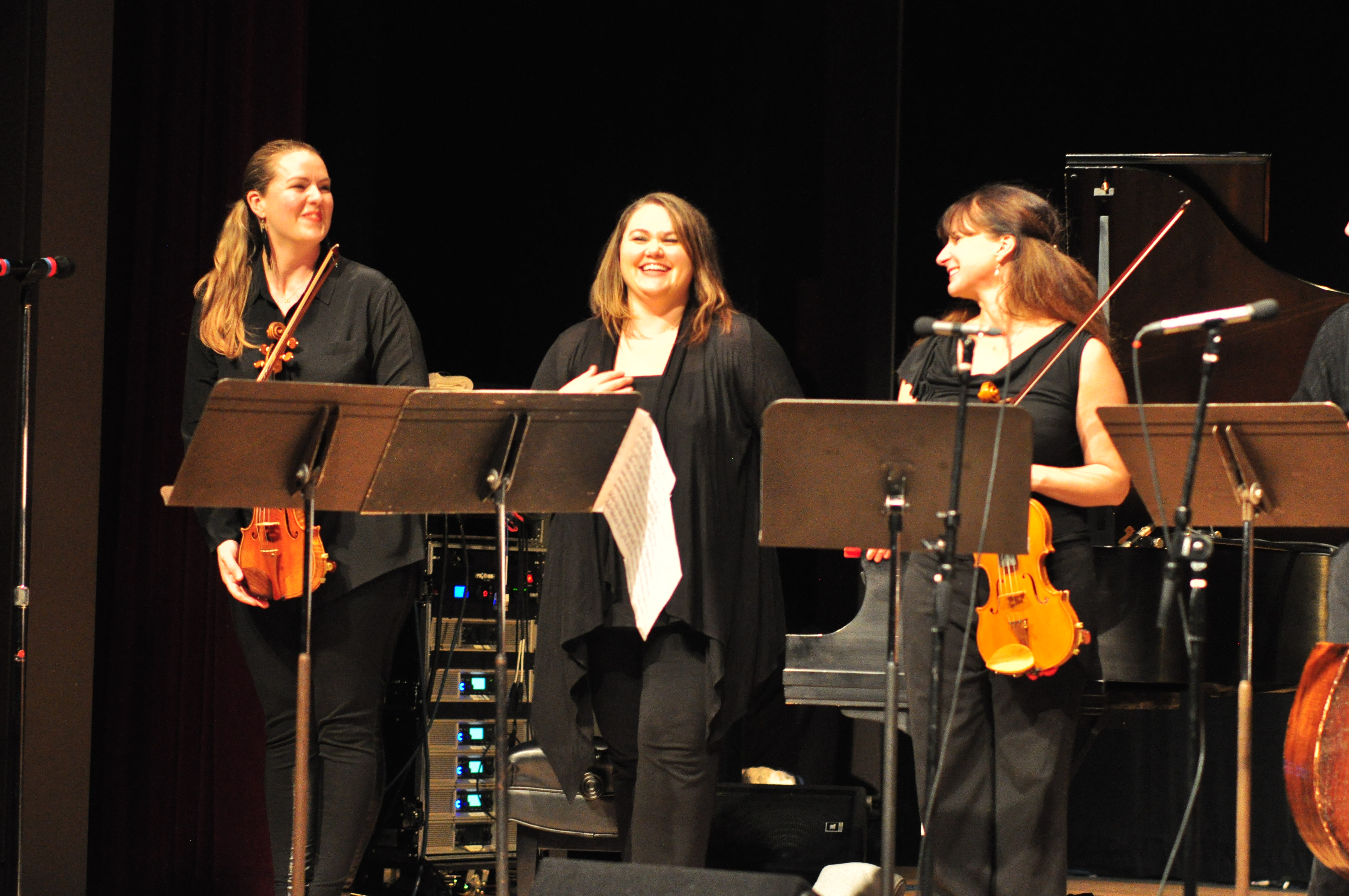 Romanian pianist Angela Drăghicescu appeared with a group of Seattle musicians performing a chamber version of George Enescu's Romanian Rhapsody No. 1 at Plestcheeff Auditorium, Seattle Art Museum, Seattle, Washington, U.S. as an opening act for Lucian Ban's group Elevation during the Earshot Jazz Festival. Photo here is from the curtain call.